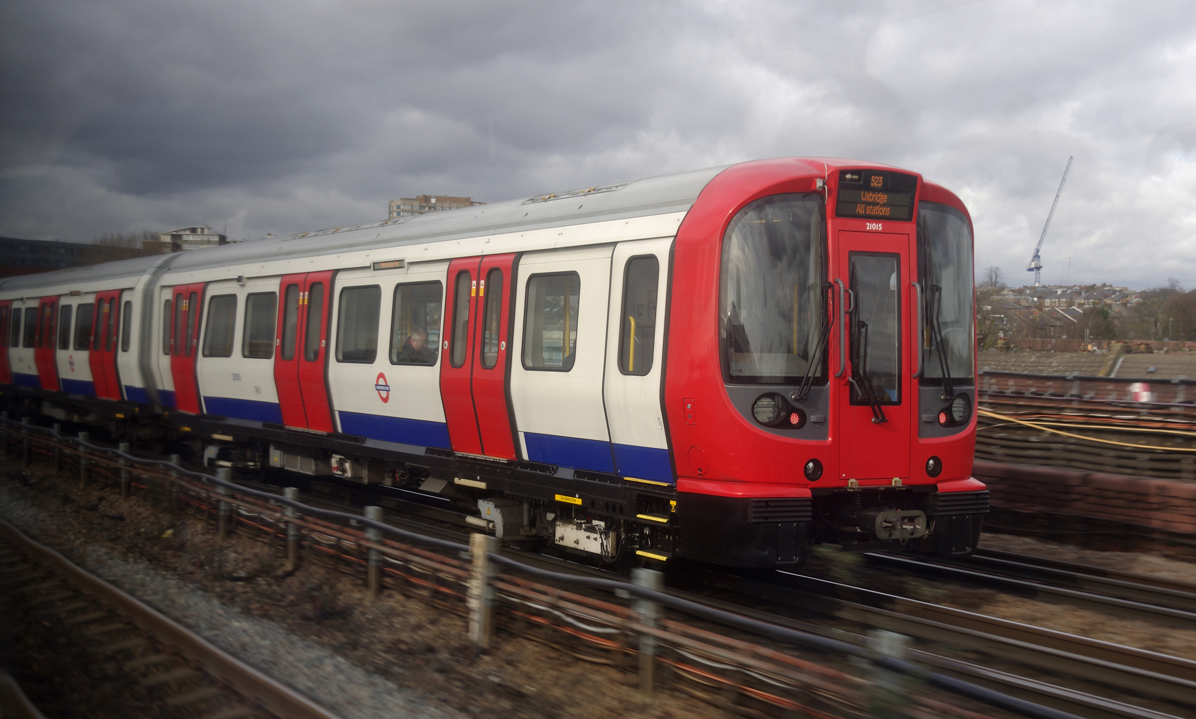 A London Underground S Stock unit travels north along the Metropolitan Line betwen Finchley Road and Kilburn. The S Stock was ordered by TfL in 2009 to replace the A Stock on the Metropolitan line, the C Stock on the Circle, District and Hammersmith and City lines and the D stock on the District line, replacing the A stock first, then the C Stock, and finally the D Stock. Currently, the S S Stock has completely replaced the A Stock on the Metropolitan line and the C stock on the Circle and Hammersmith and City lines, and is in the process of replacing the C Stock on the District line, but has yet to replace any D Stock. The process of replacing all old subsurface trains with the S Stock is to be completed by the end of 2016.